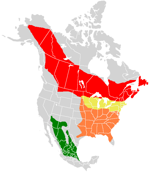 A range map showing the distribution of Limenitis arthemis. The red shows the range of L. a. arthemis; the orange shows the range of L. a. astyanax; the green shows the range of L. a. arizonensis; and the yellow shows where the ranges of L a. arthemis and L. a. astyanax overlap.